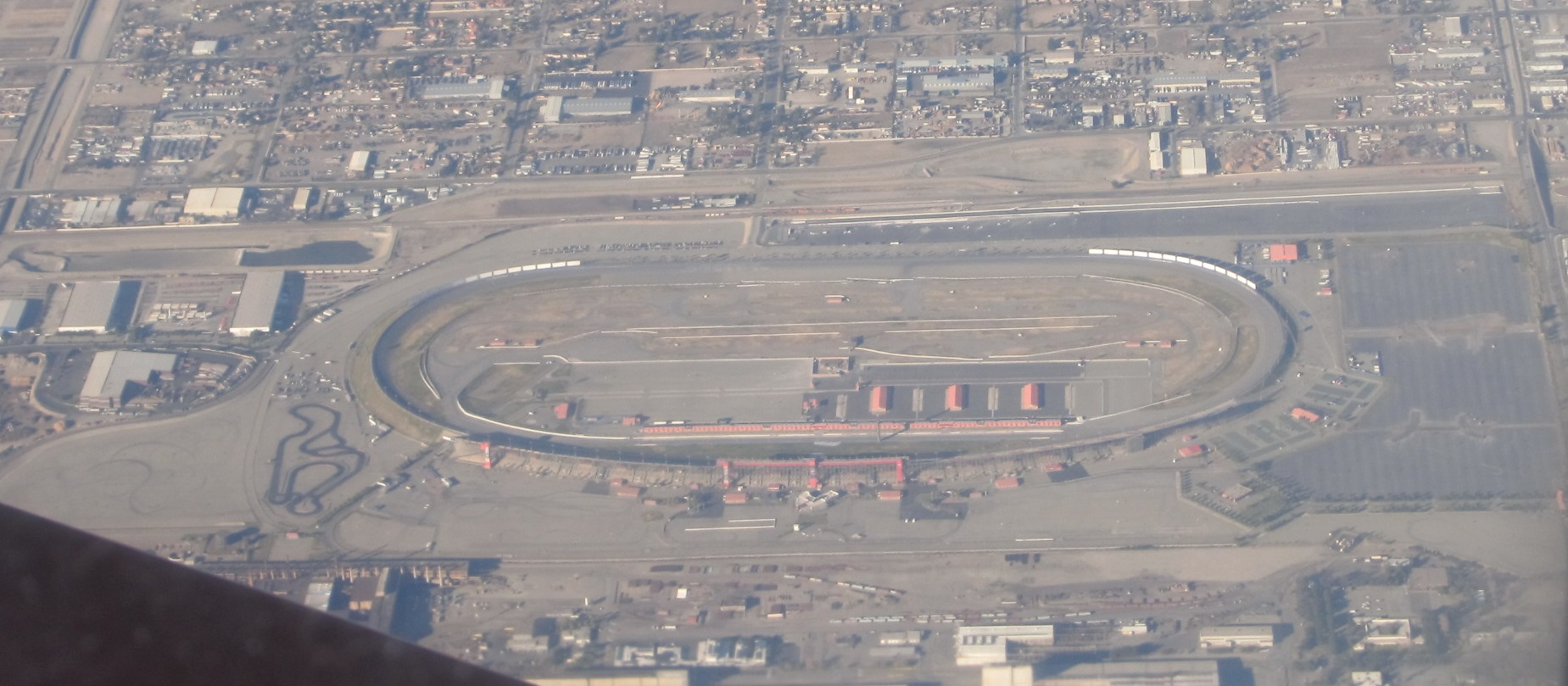 View of Auto Club Speedway in Fontana, CA, near Los Angeles. Photo taken from Southwest Airlines flight approaching LAX from Atlanta, GA on January 5, 2014. View is looking north.